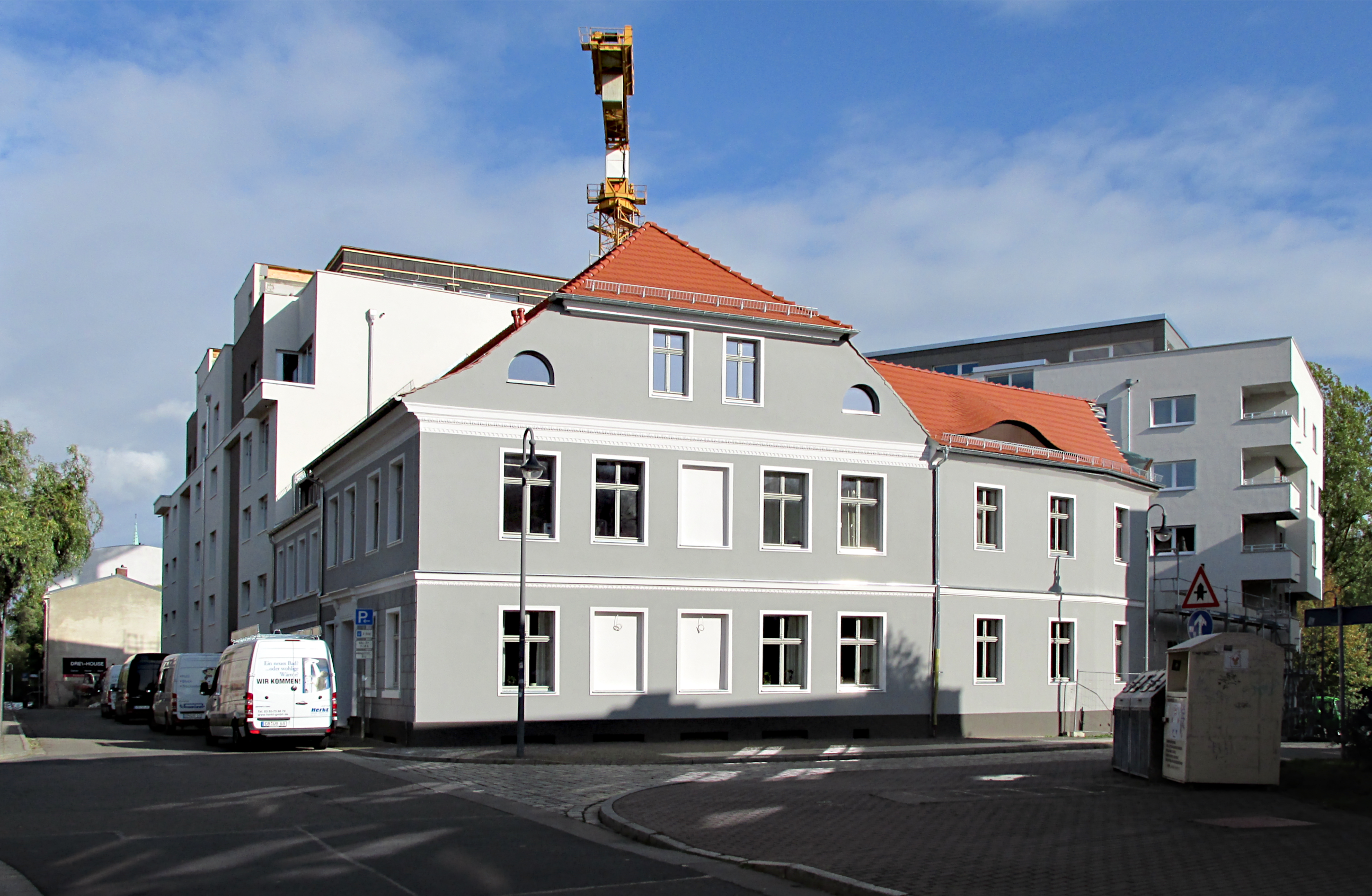 Cultural heritage monument Wichernhaus at Gertraudtenstraße in Cottbus-Mitte after refurbishment.